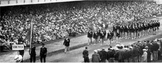 Venezuelan opening march 1952 Helsinki Olympics